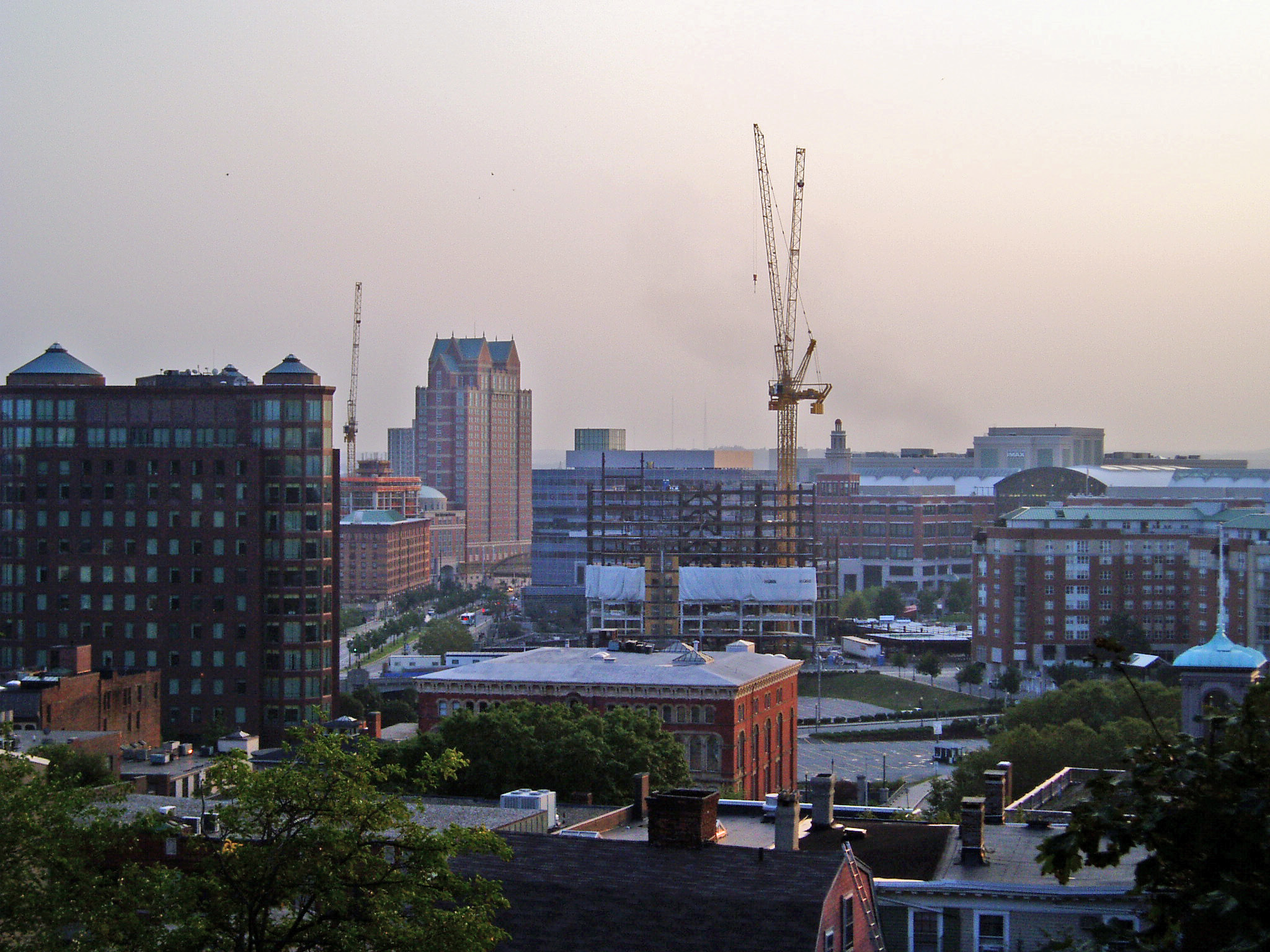 New construction in Providence from Prospect Park taken August 20th, 2006. The crane on the left is for the addition to the Westin, the two cranes on the right are building the two towers of Intercontinental's Waterplace Condominiums.